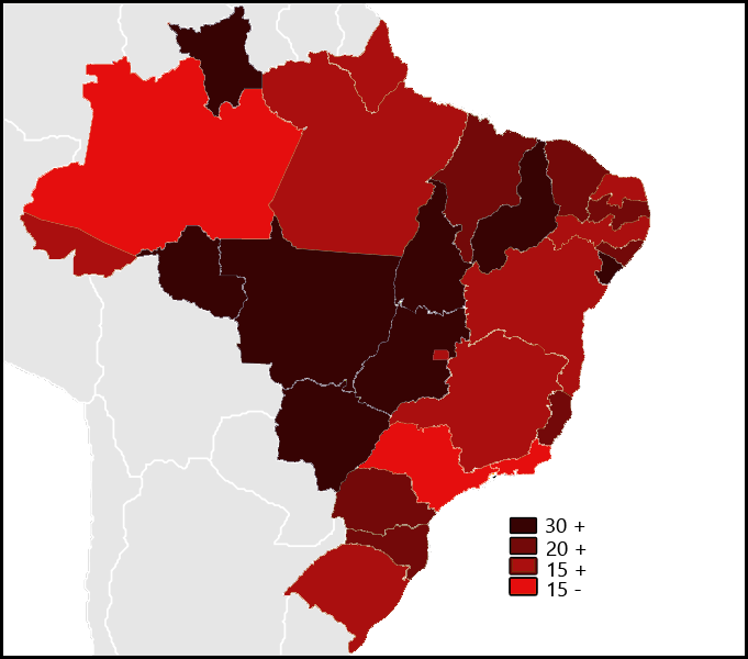 Map of Brazilian states by number of deaths in traffic accidents.